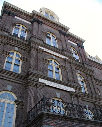 Vassar College Main Building Closeup. The photo was taken by the uploader.